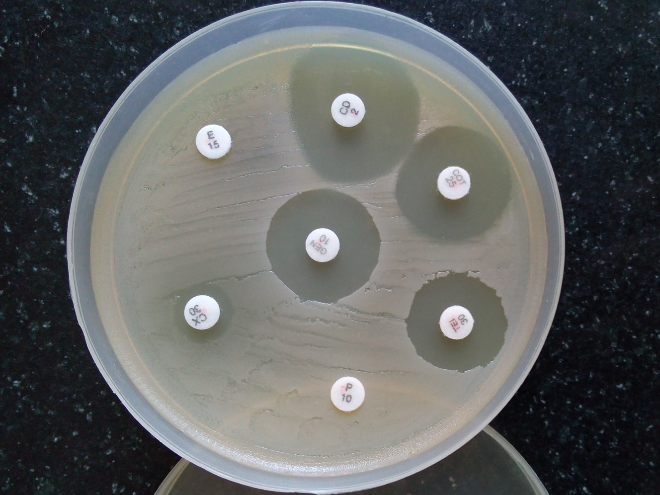 Erythromycin induced clindamycin resistance in a culture of Staphylococcus aureus "E 15" is __. No clear ring. No inhibition. "CD 2" is __. Large clear ring. "COT 25" is __. Large clear ring. "TEI 30" is (teicoplanin?). Large clear ring. "P 10" is __. No clear ring. No inhibition. "CX 30" is __. Small clear ring. Weak inhibition. "GEN 10" is __. Large clear ring.